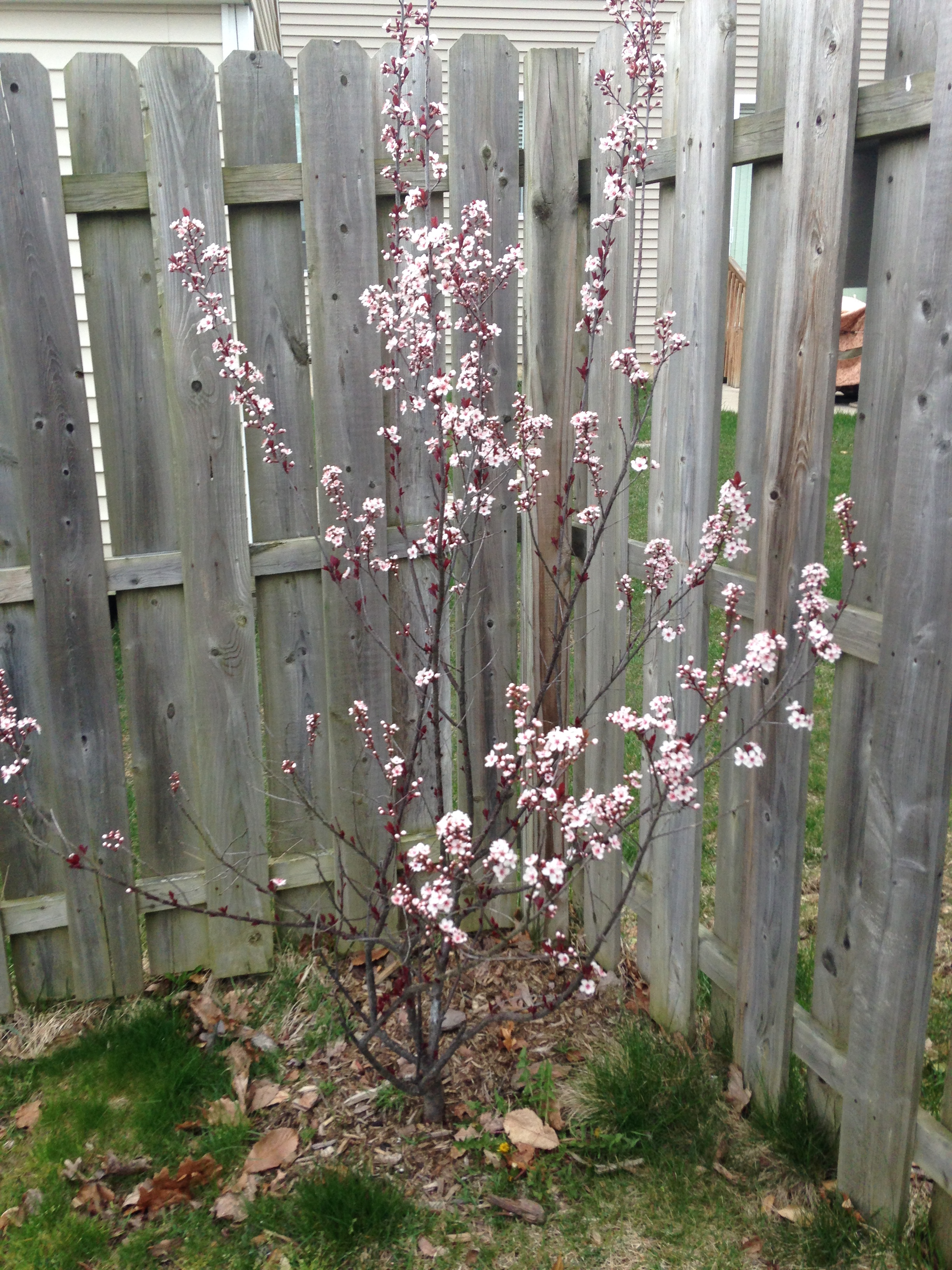 Purple leaf sand cherry (Prunus cistena) flowering in the spring